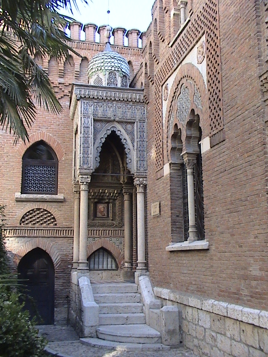 Laredo Palace's main entrance at Alcalá de Henares (Community of Madrid - Spain). Neogothic-Mudejar building built in 1884.